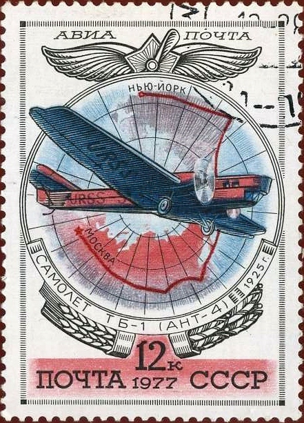 1977 Soviet Union 12 kopeks stamp. Tupolev TB-1